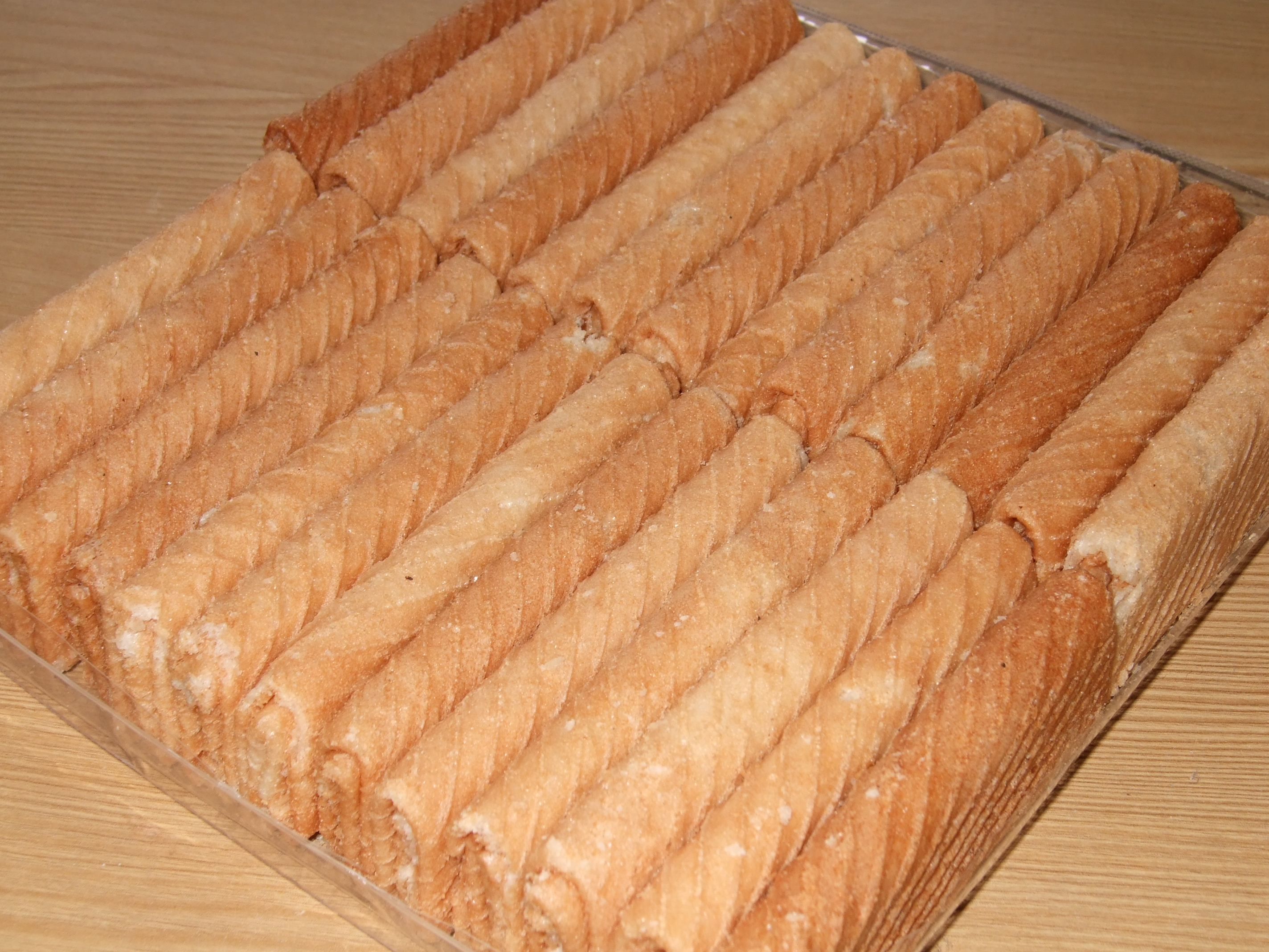 Kue semprong, crispy rolls made of rice flour and coconut milk